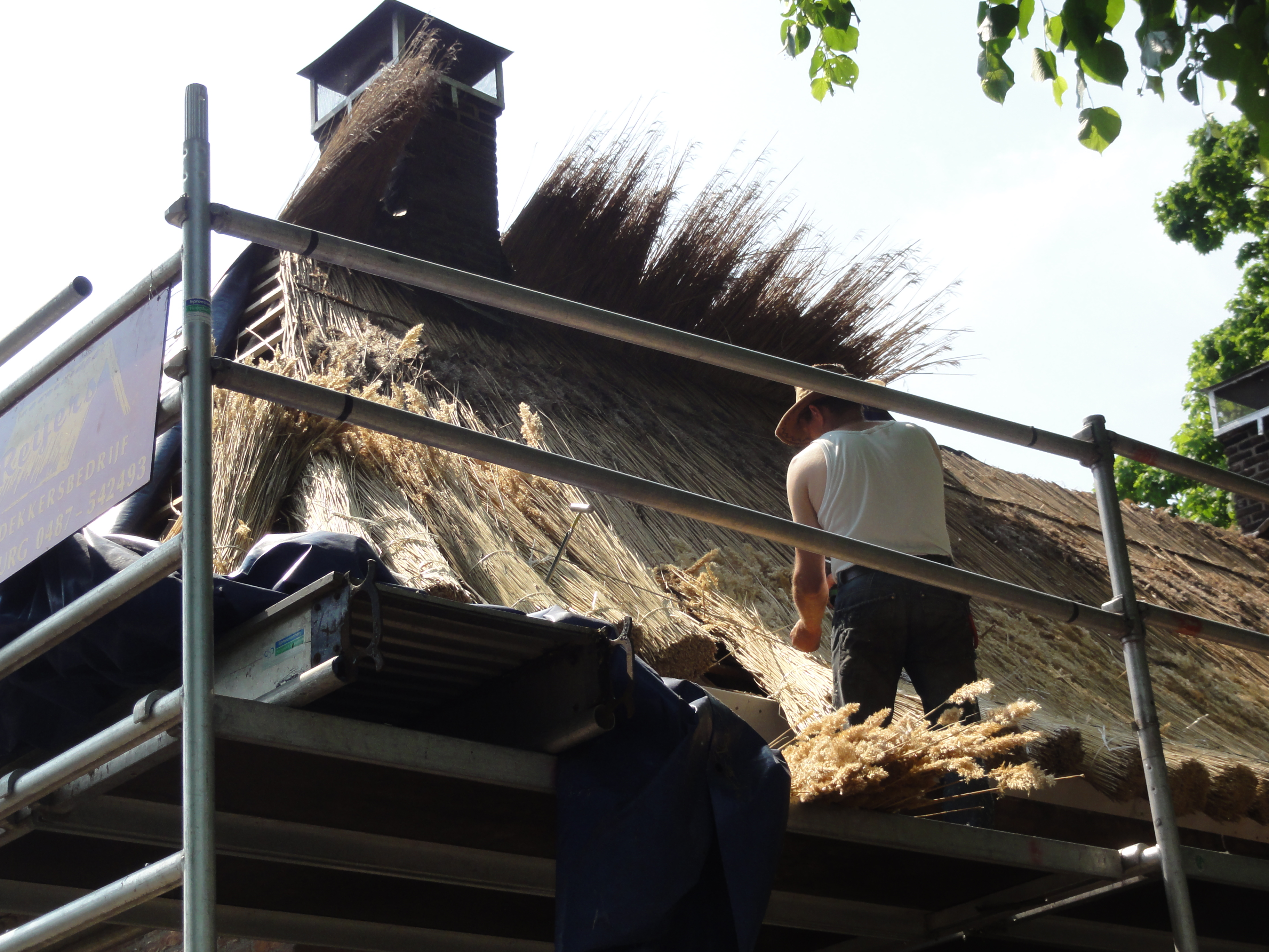 Hernen (Wijchen) Rijksmonument 9311 Dorpsstraat 33, vernieuwing dakstro